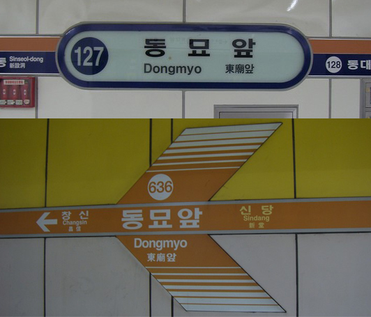 Dongmyo Station